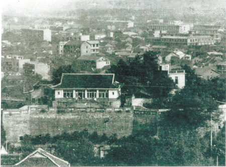 Tianxin Pavilion in 1938. Tianxin Pavilion is a Chinese pavilion in downtown Changsha, Hunan, China. It is adjacent to Changsha Bamboo Slips Museum and Baisha Well.